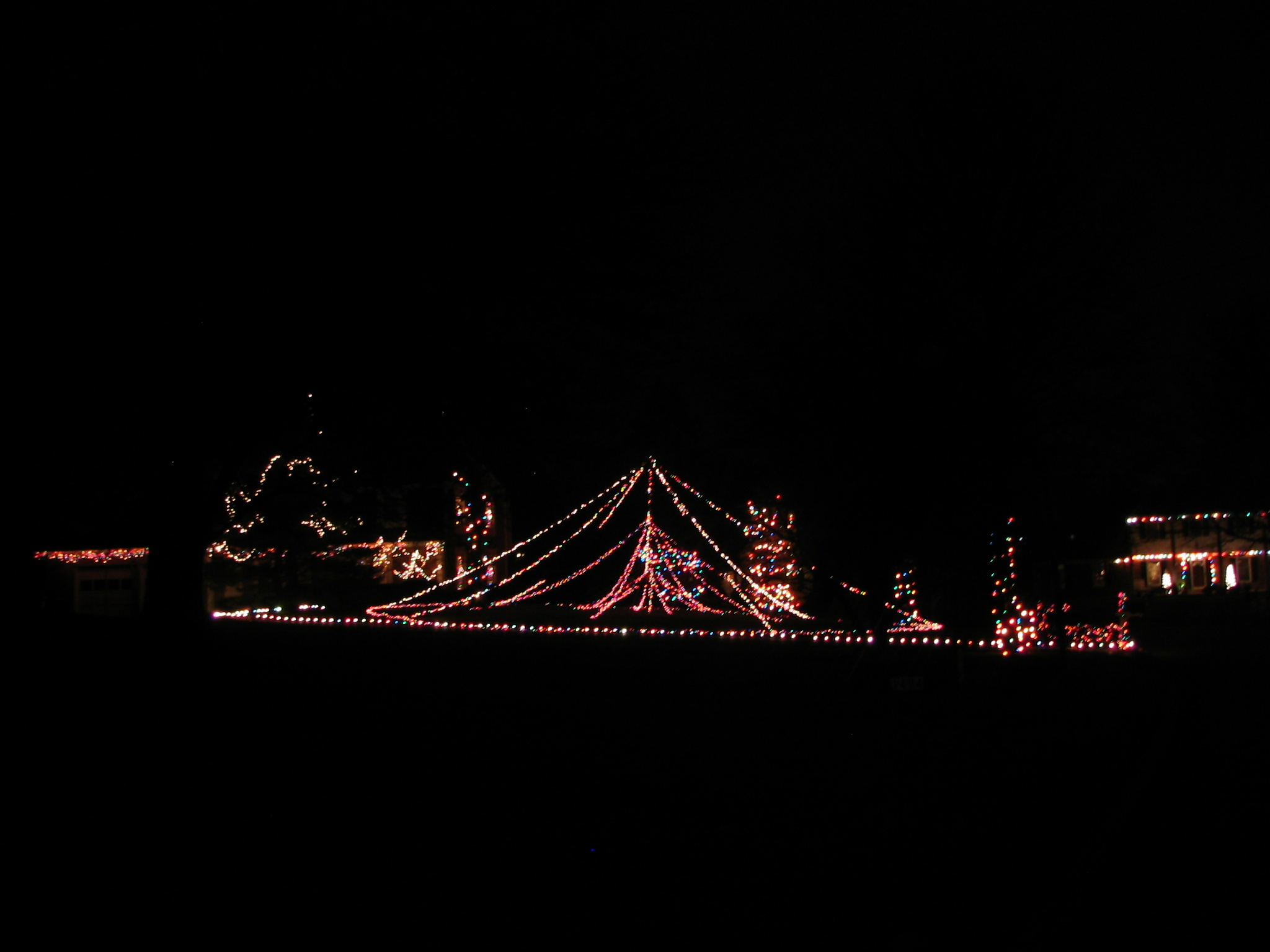 2006 outdoor Christmas light display in Cincinnati OH